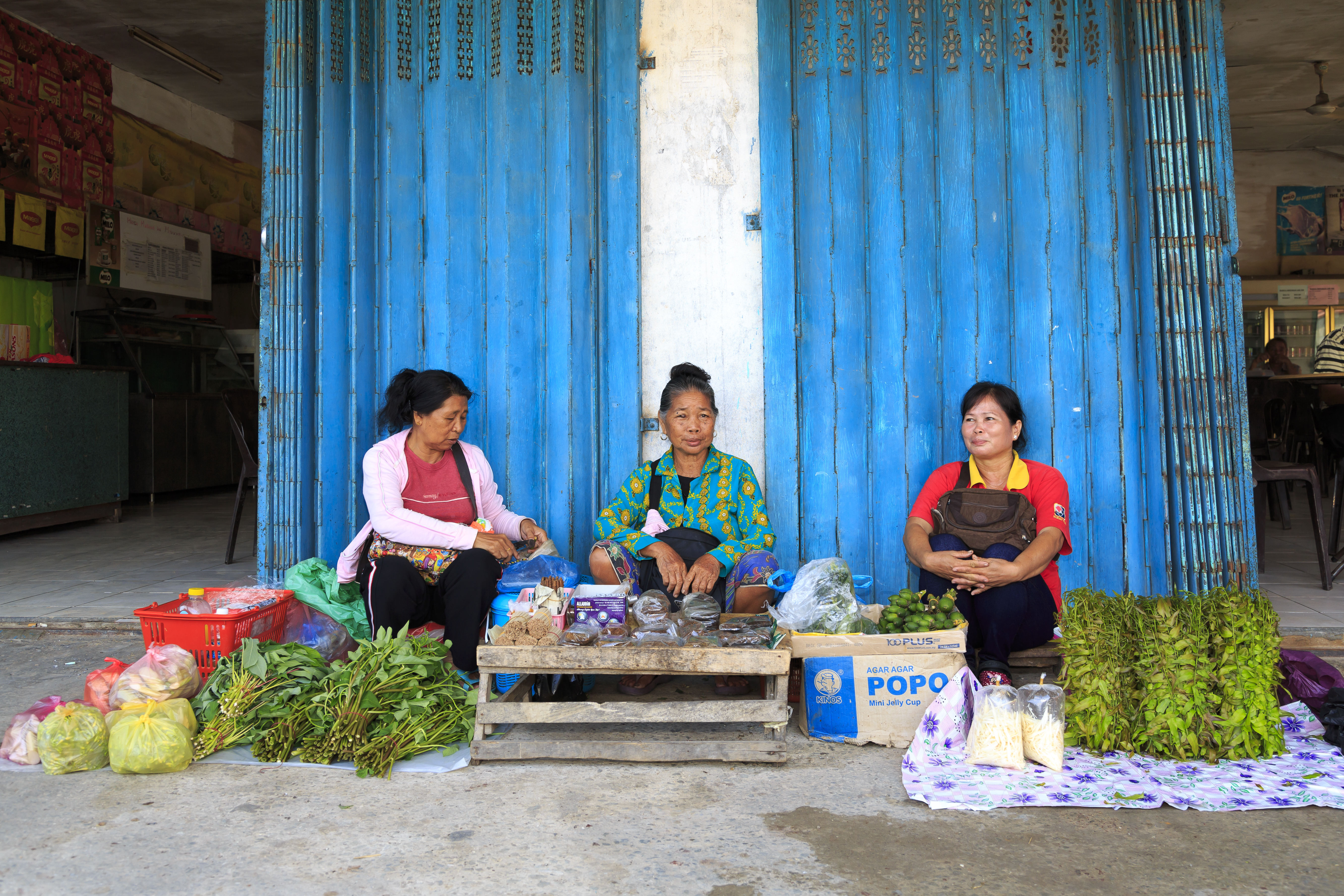 Sikuati, Sabah, Malaysia: Three Rungus ladies selling home-produced products in Pekan Sikuati